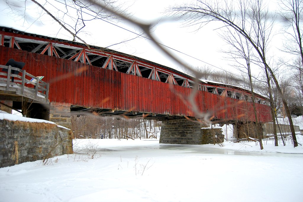 A view of the wooden Percy, or Powerscourt Bridge--the oldest bridge in Canada--over the frozen Chateauguay River in Quebec. It has been restored to its 1861 grandeur and has been declared a heritage site by the Canadian government. It was designed by American architect Daniel Craig McCallum. The Percy or Powerscourt bridge is the only bridge, out of originally 150 McCallum inflexible truss bridges, which was not designed solely as a railway bridge. They were erected to be strong enough to carry the heavy loads of locomotives and their cargo.